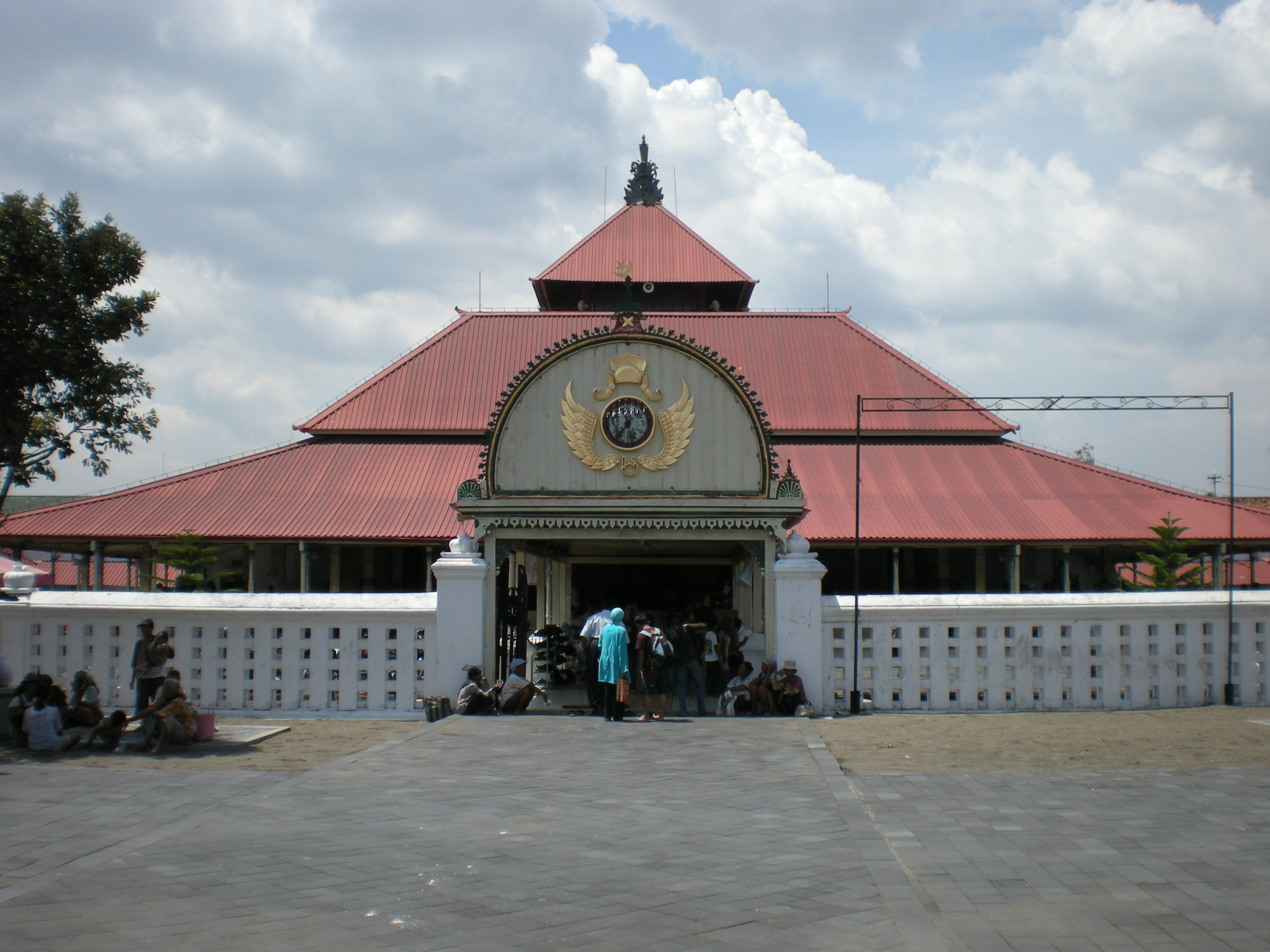 Yogyakarta Sultanate Grand Mosque, Indonesia